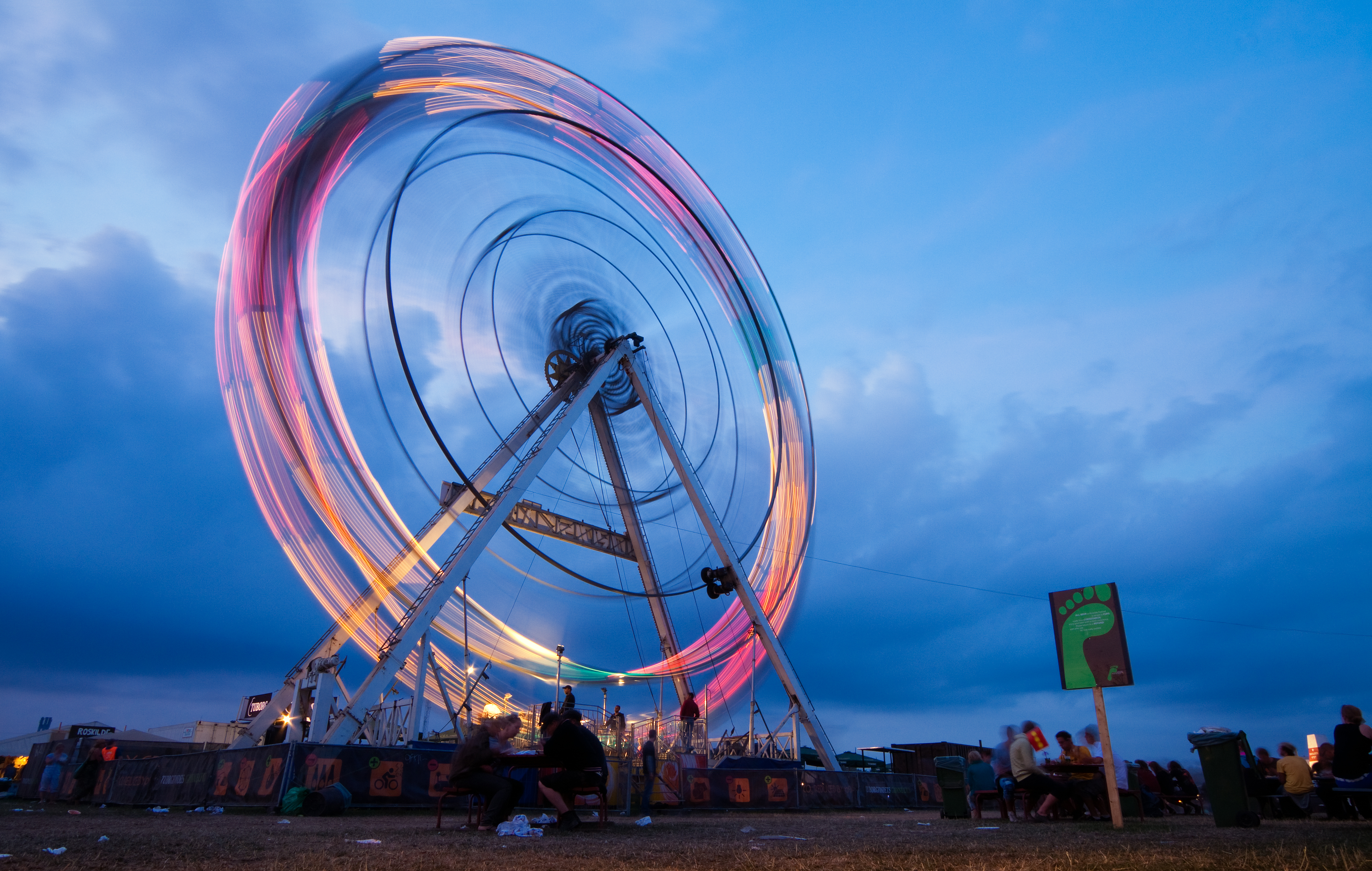 I'm going to loosen up a bit on a stupid principle of mine, always posting all photos from the same event together and chronologically here on Flickr. Following that principle I end up almost never posting some of my photos, and I can always order the photos in sets later anyway. So here's a shot from Sunday night on Roskilde Festival 2009 - and without feeling any obligation to post the rest of the festival photos before I post something else:-)... The Green Wheel was a new attraction on the festival. A 30m tall Ferris Wheel giving you a very nice view over Orange Stage and the field in front of it. Of course I've got photos of the view from top of it too - I'll post 'em some other day...